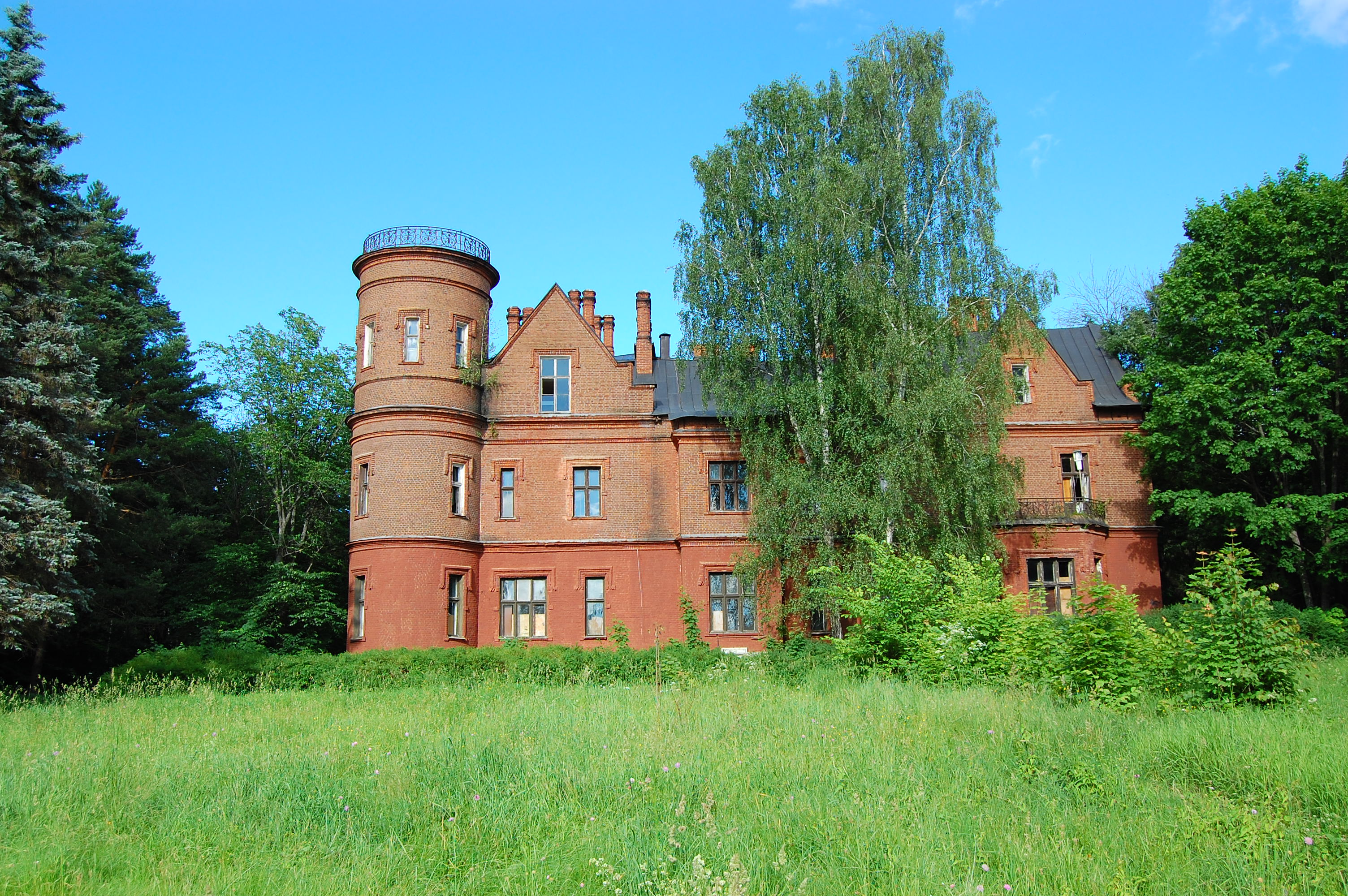 Manor House in Vasil'evskoe (Mar'ino), the architect P.S. Boytsov, built in 1881 - 1884.